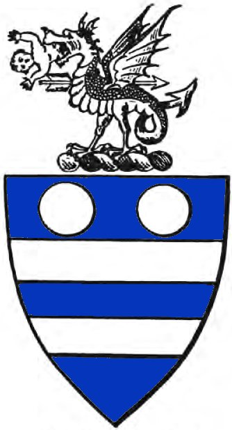 Notable family Venables of Bradwall arms described as consisting of: "Azure two bars Argent, in chief two plates, and crest: A wyvern, with wings endorsed Argent, pierced with an arrow headed Or and feathered Argent, devouring a child proper, sometimes depicted standing on a weir" (Earwaker, 1890)